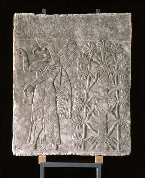 Assyrian relief (inv.no. AS1) from the North-West palace in Nimrud (c. 883-859 BC.). On display at the The National Museum of Denmark, Dept. of Classical and Near Eastern Antiquities.